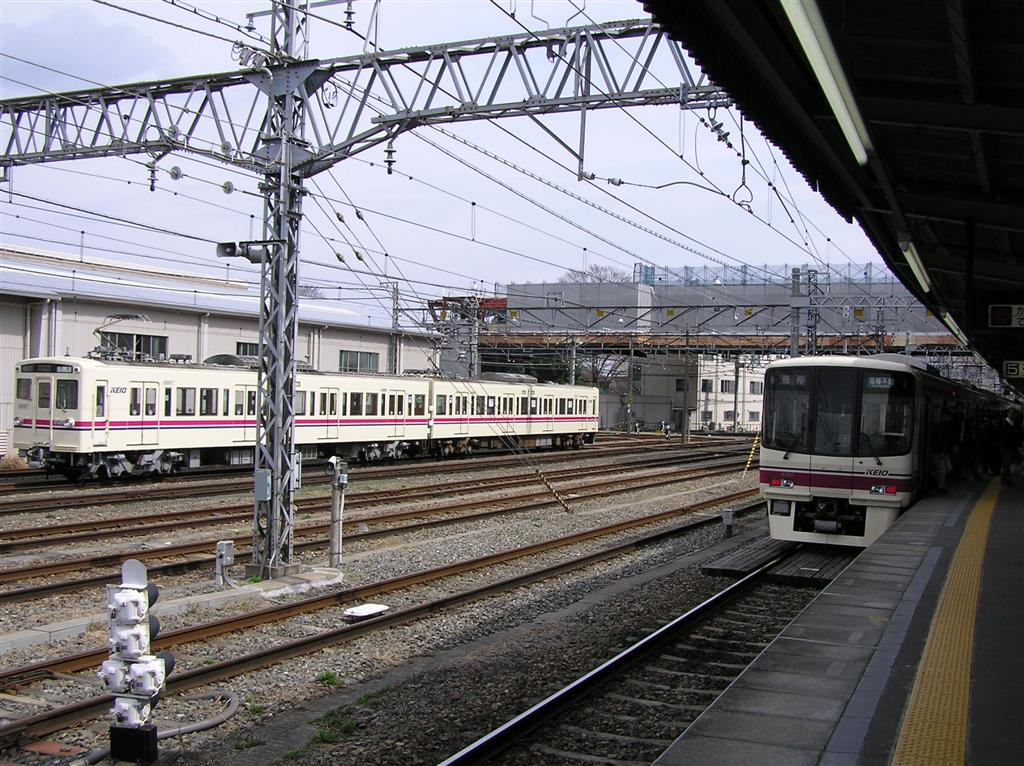 Takahatafudo Inspection Depot seen from Takahatafudo Station platform 4 and 5. Not cropped.